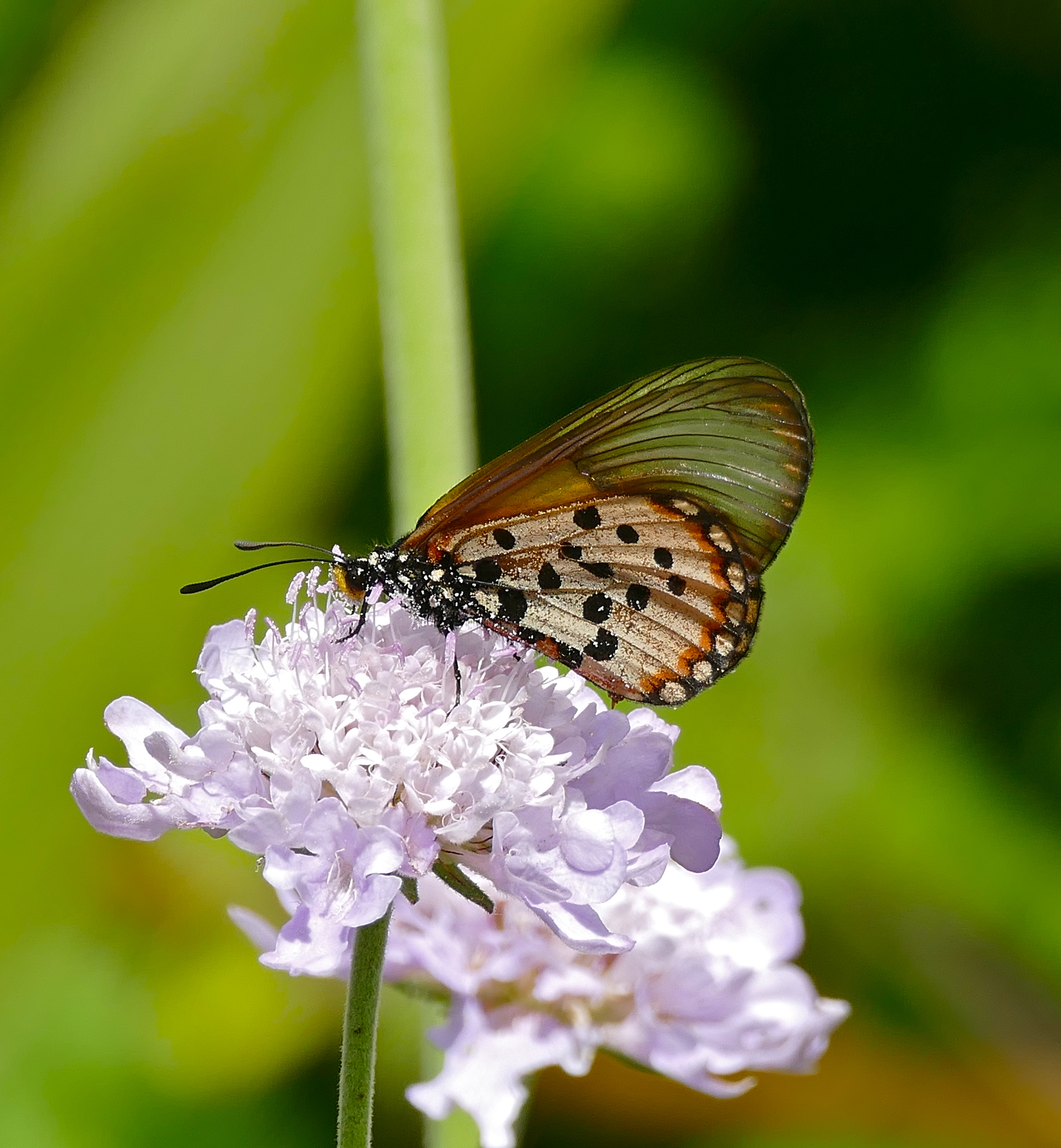 Kirstenbosch National Botanical Garden, Cape Town, Western Cape, SOUTH AFRICA